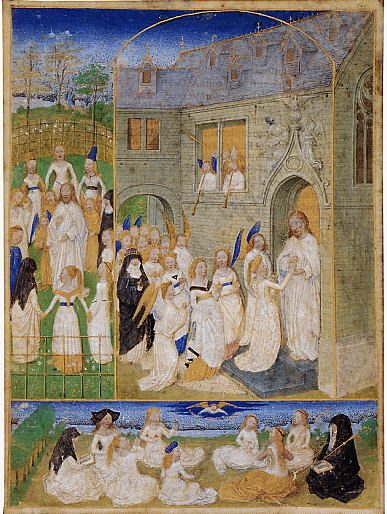 Leaf from a breviary; Manuscripts and Illuminations